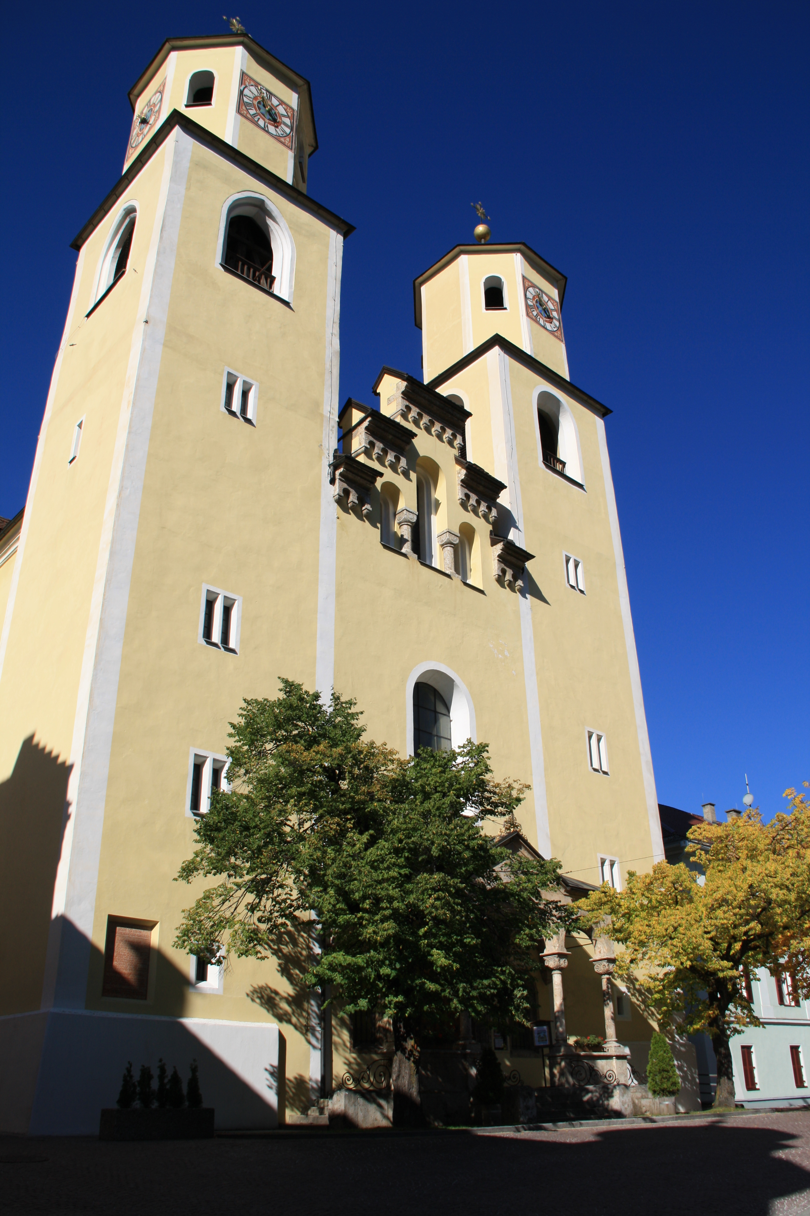 Österreich, Tyrol (state), Steinach am Brenner, Pfarrkirche St. Erasmus. Façade with the tower on both sides.